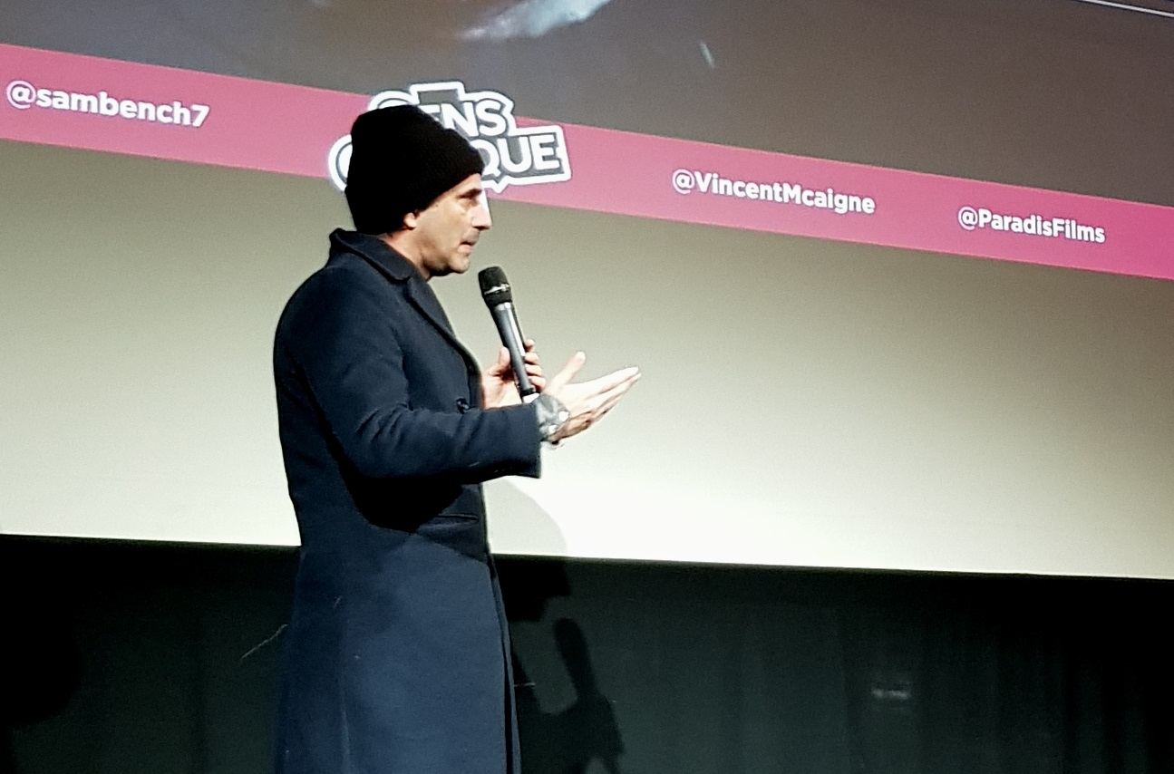 Direct Samuel Benchetrit at the premiere of his movie "Chien"